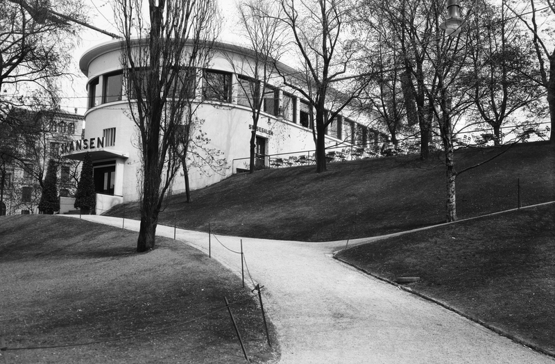 Skansen restaurant, Oslo, by architect Lars Backer, 1927. Demolished 1970.